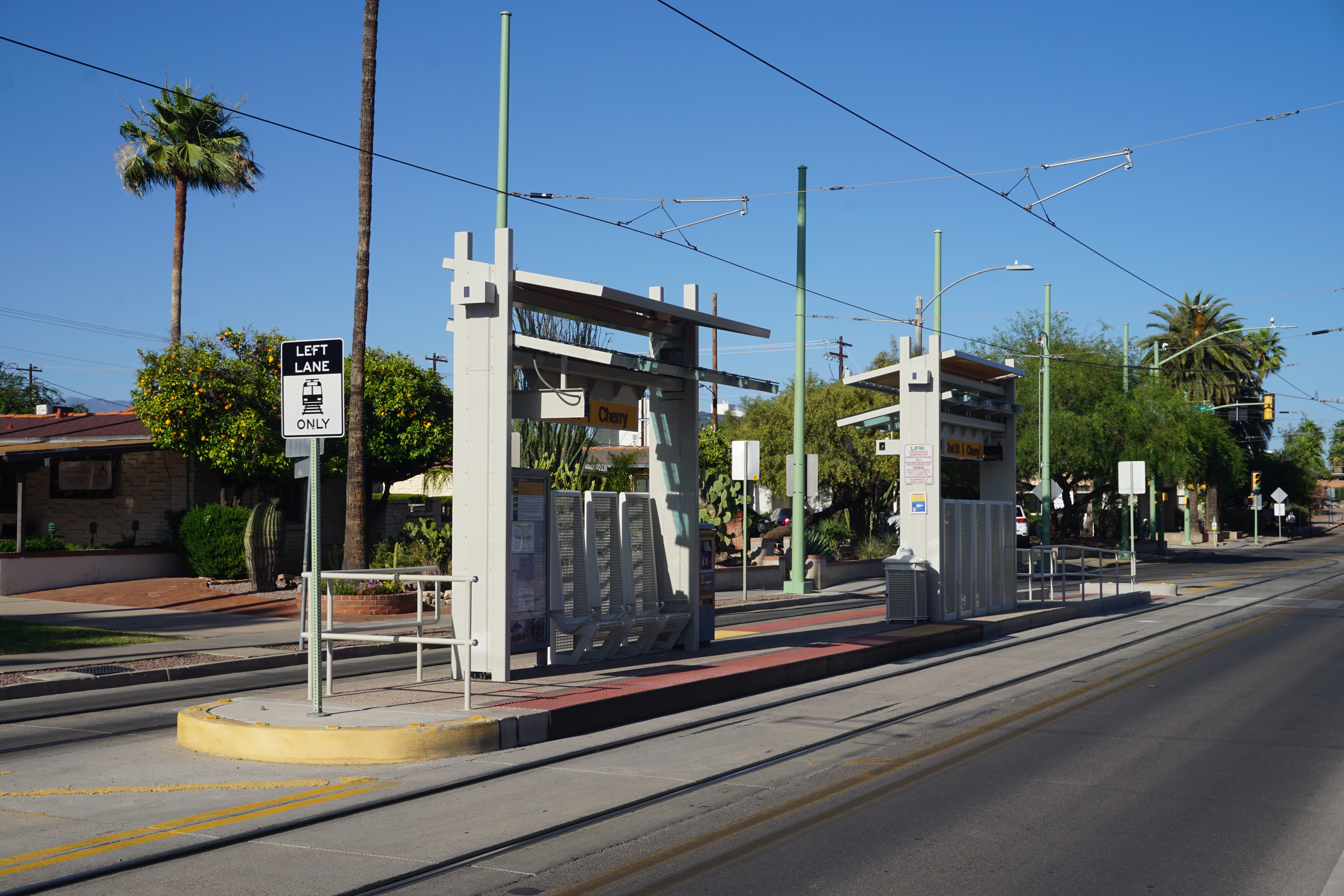 A Sun Link streetcar stop in Tucson, Arizona (United States).